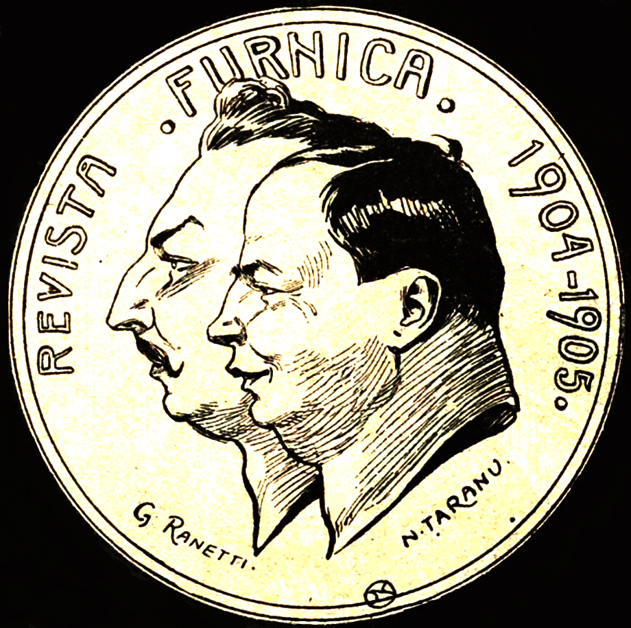 Mock-medal with the effigies of Geore Ranetti and Nae Dumitrescu Țăranu, editors of Furnica. Published on the magazine's one-year anniversary.